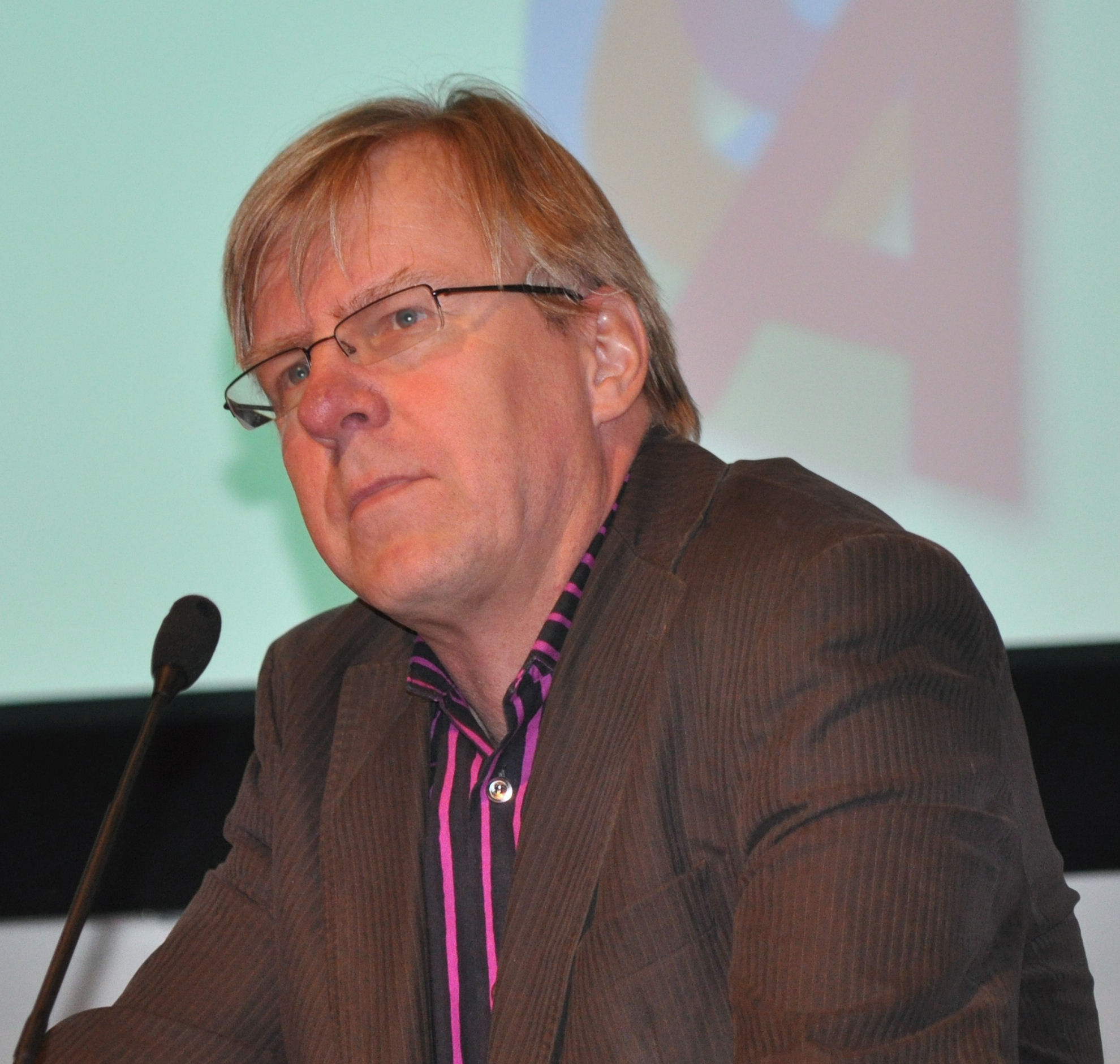 Juha Sihvola (1957–2012), Finnish philosopher and historian, Educa fair, Helsinki, January 2009.